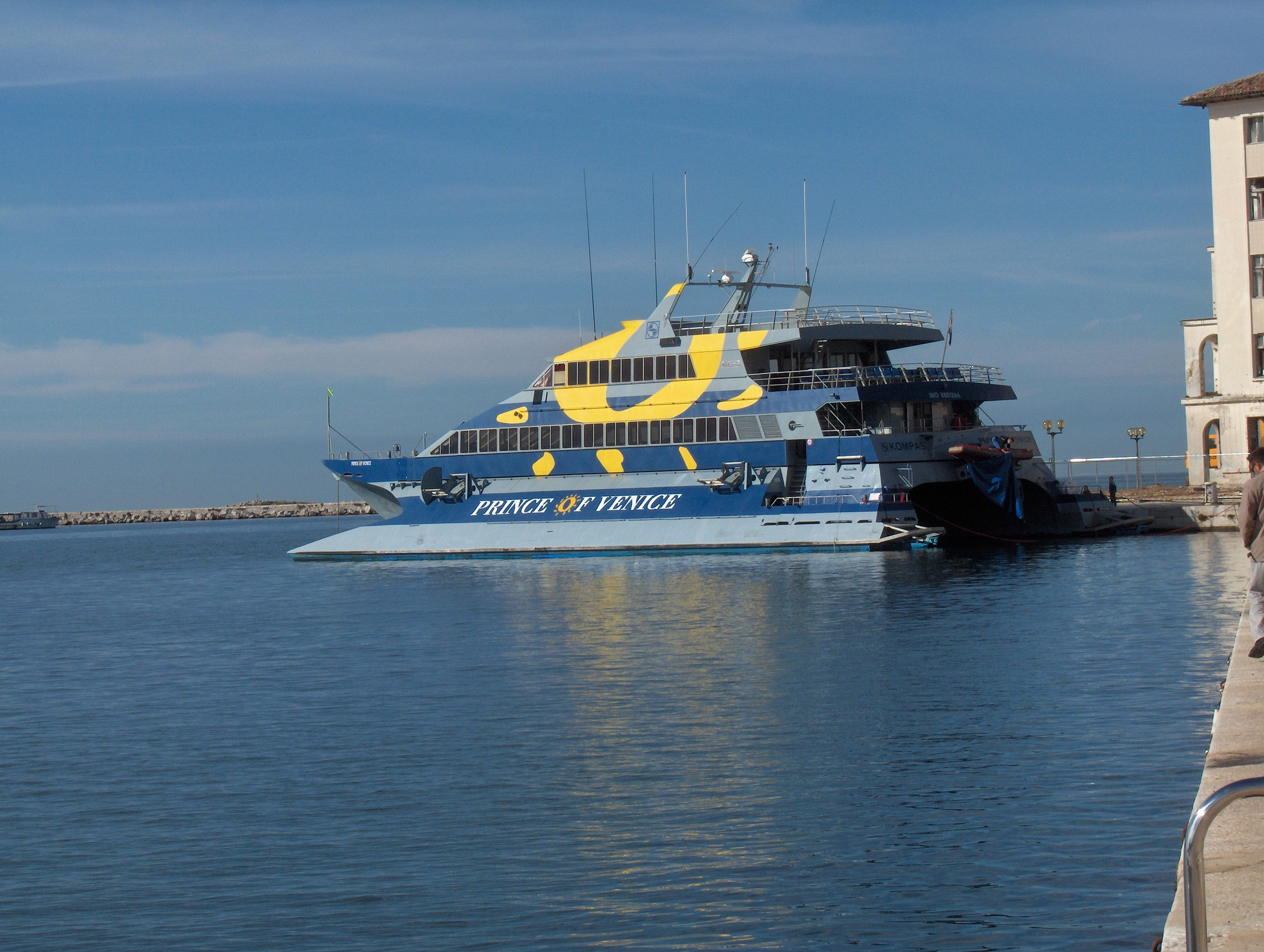 High-speed catamaran "Prince of Venice"; Venezia Lines, Poreč, Croatia IMO Number: 8801266 MMSI Number: 238162140 Callsign: 9AA2244 Length: 40 m Beam: 16 m